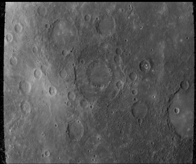 Image Number: 0166592GMT: 1974:264:19:11:34Start Time: 1974-09-21T19:11:34.486ZLatitude: -47.17° to -25.47°Longitude: 49.13° to 75.57°Resolution (meters per pixel): 733Incidence Angle: 50.63°Emission Angle: 27.84°Phase Angle: 78.02°